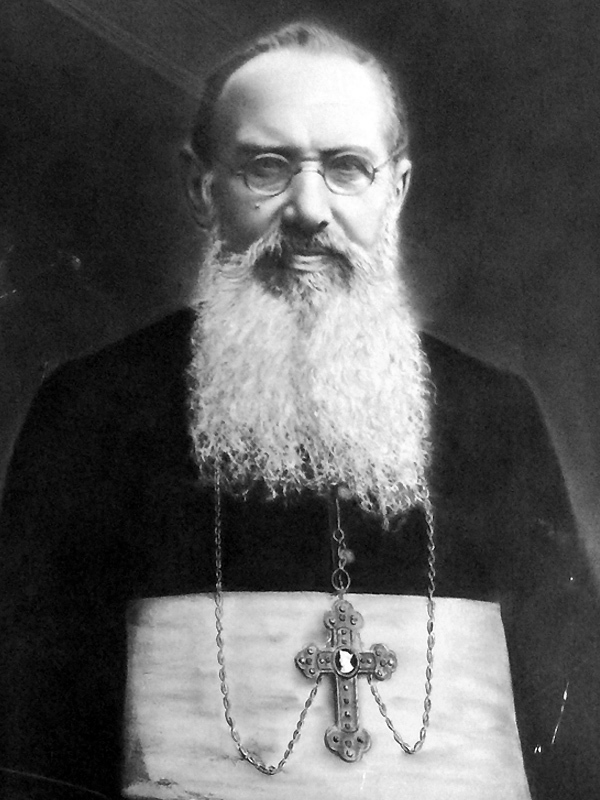 Bishop Emile Gabriel Grison SCJ (1860-1942)